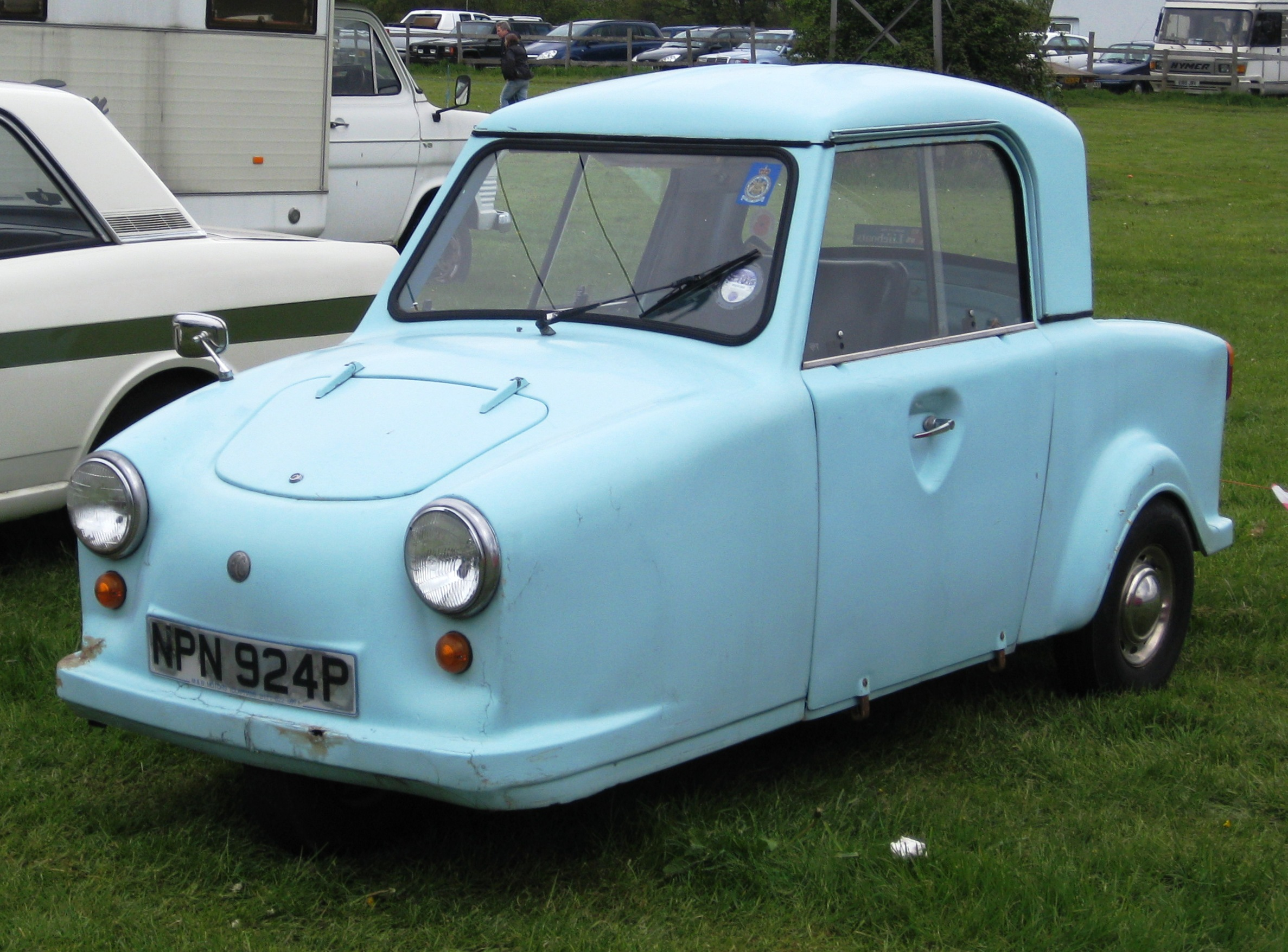 AC Invalid Carriage 1976